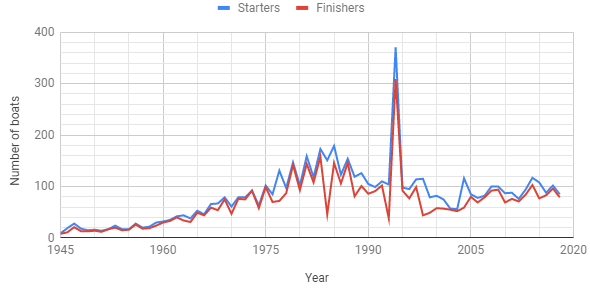 A graph of the number of boats starting and finishing the Sydney Hobart Yacht Race from the first race in 1945 to 2018.